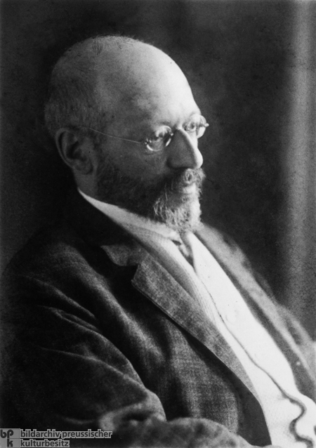 Georg Simmel, German philosopher and sociologist